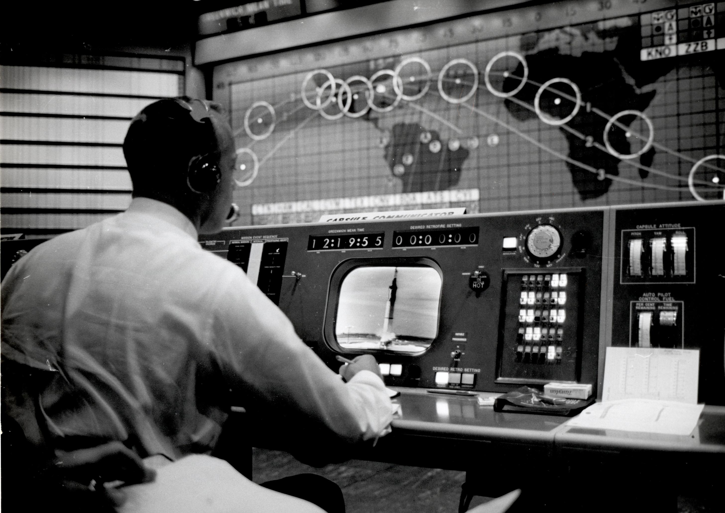 Astronaut Alan B. Shepard monitoring the launch of Mercury-Redstone 4 at the CAPCOM console in Mercury Control Center.